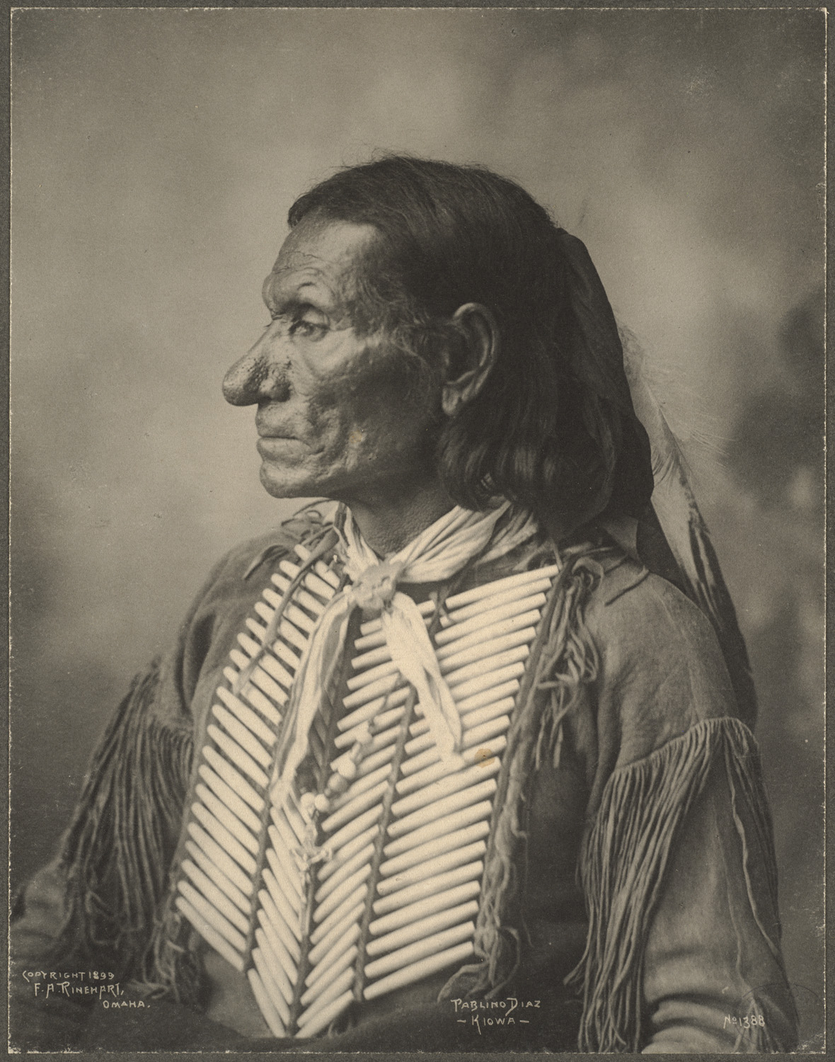 BPLDC no.: 09_06_000025 Rinehart no.: 1388 Title: Pablino Diaz, Kiowa Photographer: Rinehart, F. A. (Frank A.) Copyright date: 1899 Extent: 1 photographic print : platinum Genre: Platinum prints; Portrait photographs Subject: Indians of North America; Kiowa Indians; Trans-Mississippi and International Exposition (1898 : Omaha, Neb.) BPL Department: Print Department